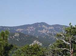 Black Hills of South Dakota Photo taken by Doug Swisher in the summer of 2001. © 2001 Doug Swisher